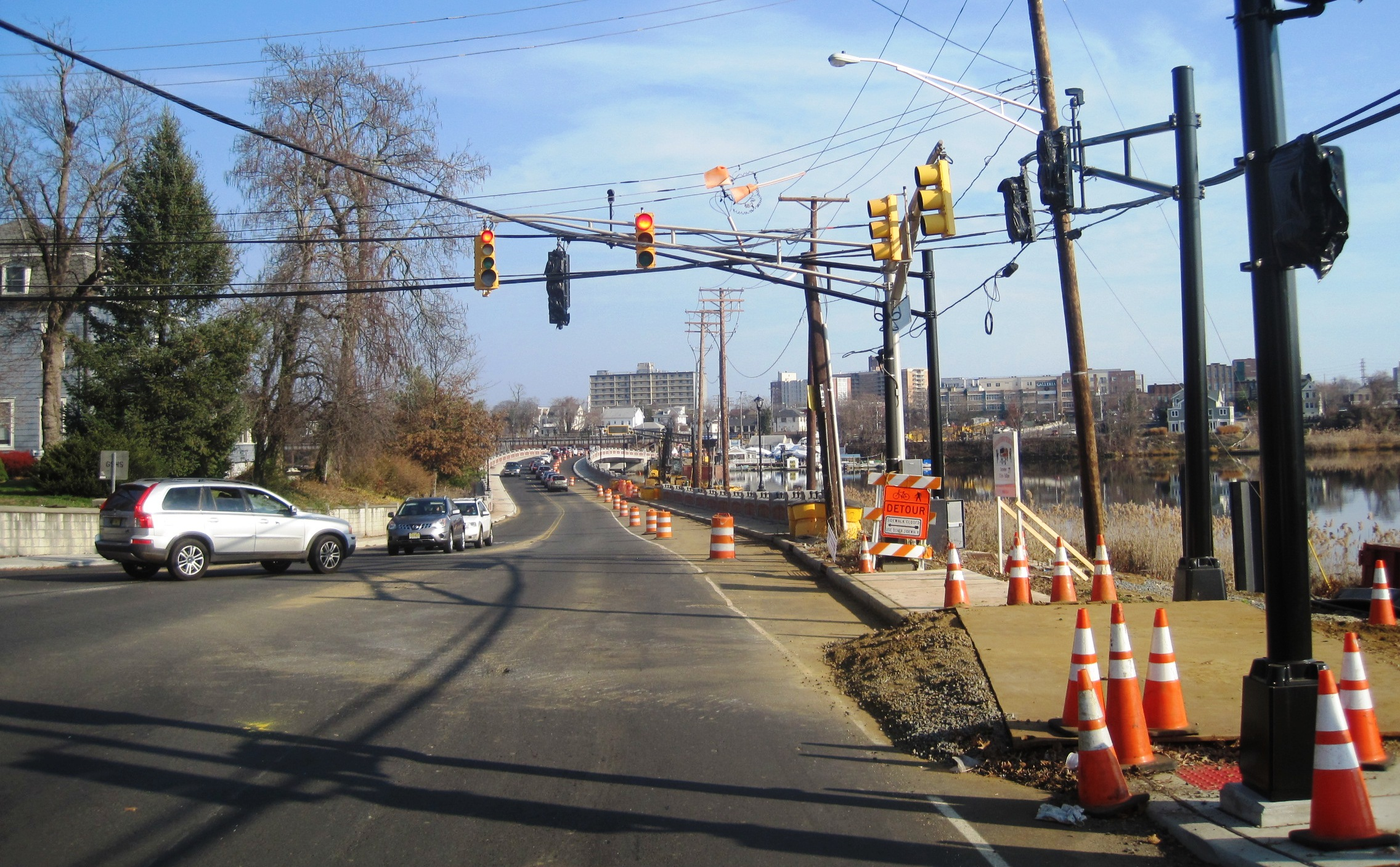 Photo showing the construction of the new Hubbards Bridge connecting the River Plaza section of Middletown Township and Red Bank, New Jersey. Photo taken at the Middletown intersection of West Front Street (County Route 10 ahead of this point) and Hubbard Avenue (CR 12) looking east.